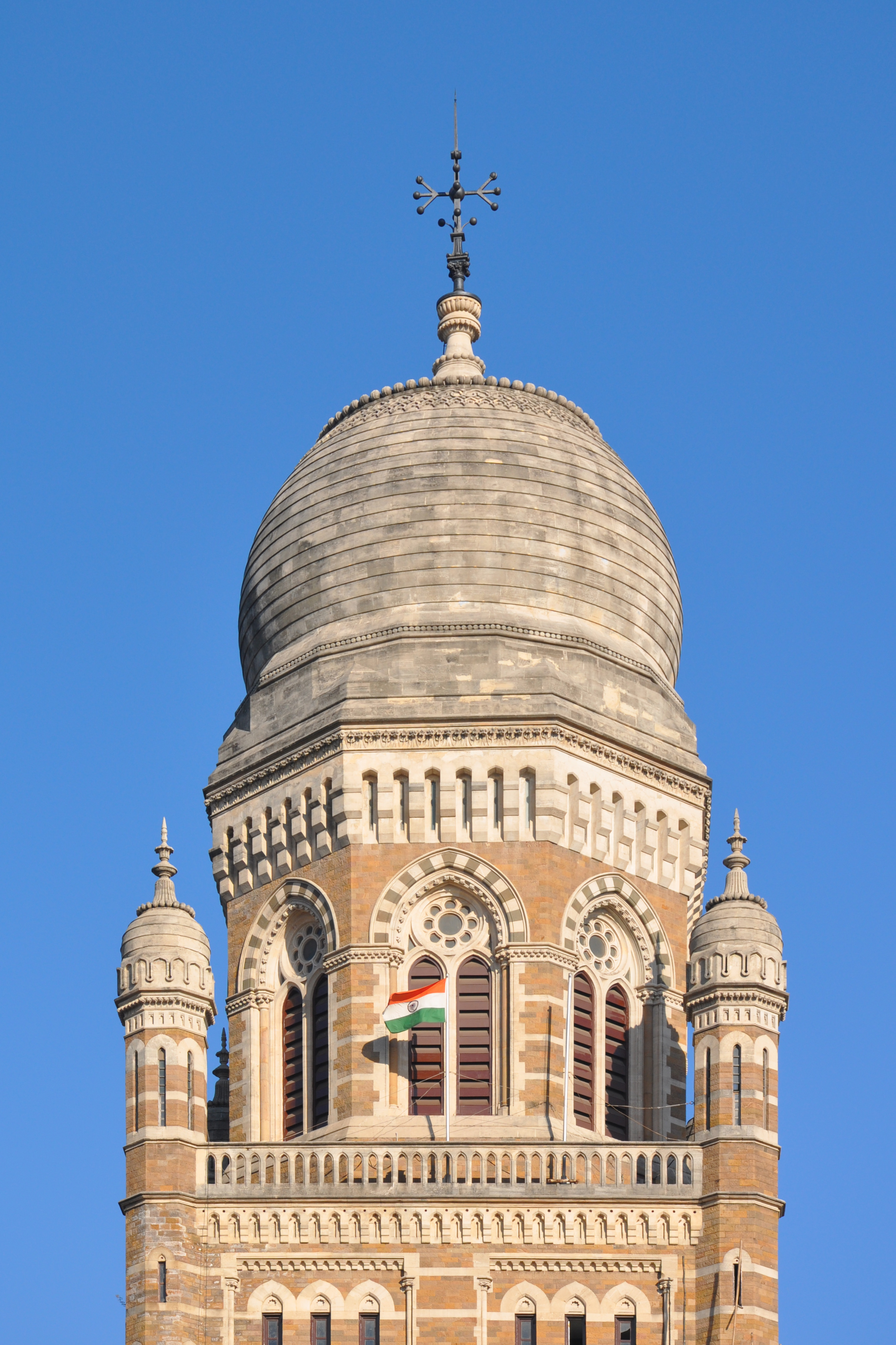 Main tower of Municipal Corporation Building, Mumbai in India.